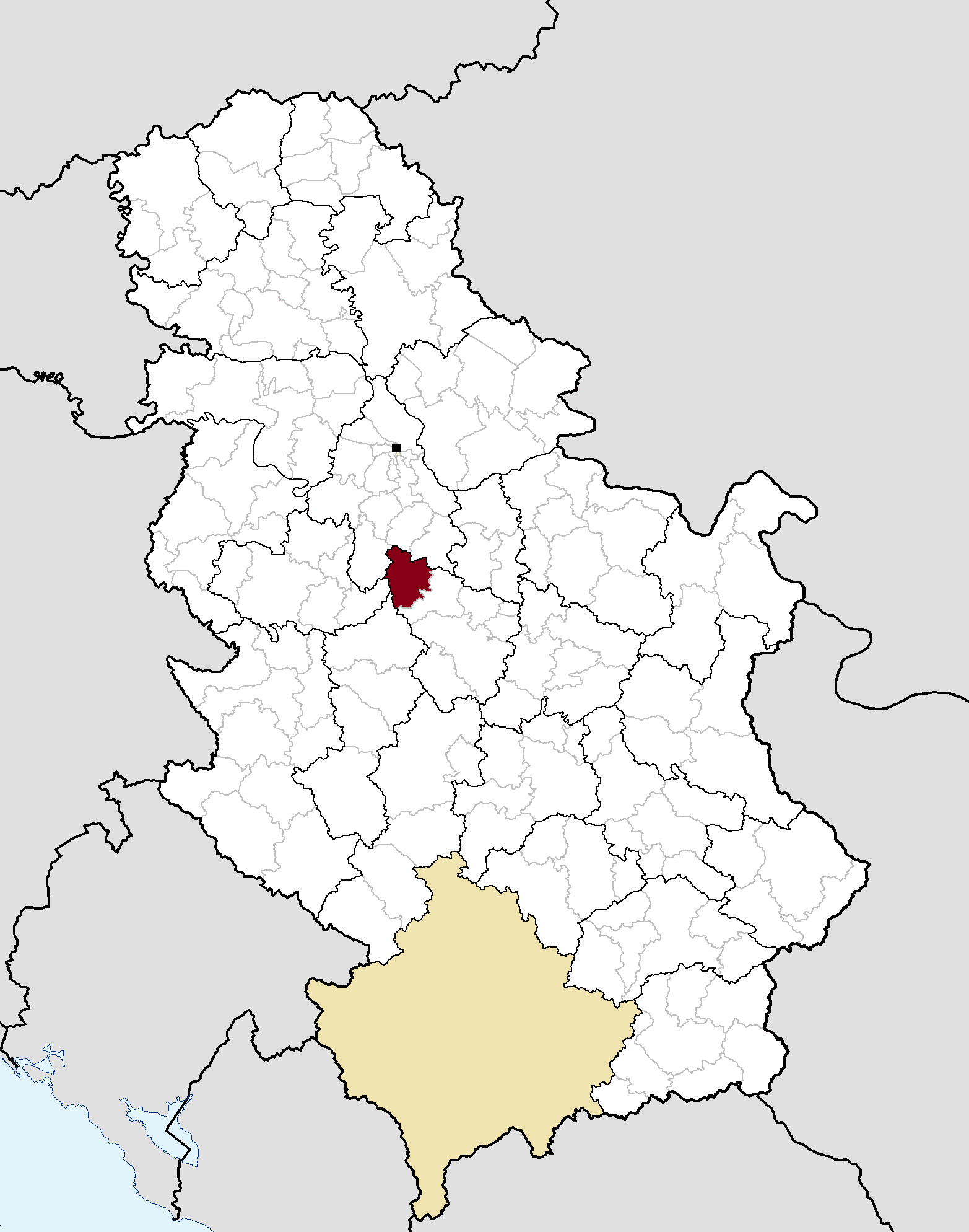 Municipal location in Serbia